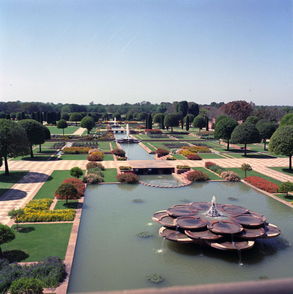 View of the Mughal Garden of Rashtrapati Bhavan, official residence of the President of India, in New Delhi, India.